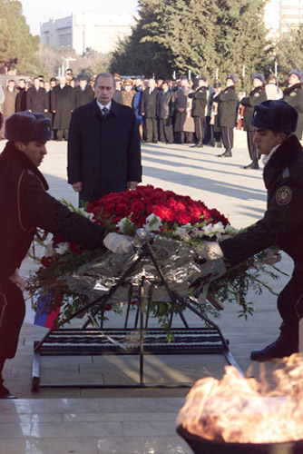 BAKU. President Vladimir Putin laid a wreath to the memorial Alley of Shehids.